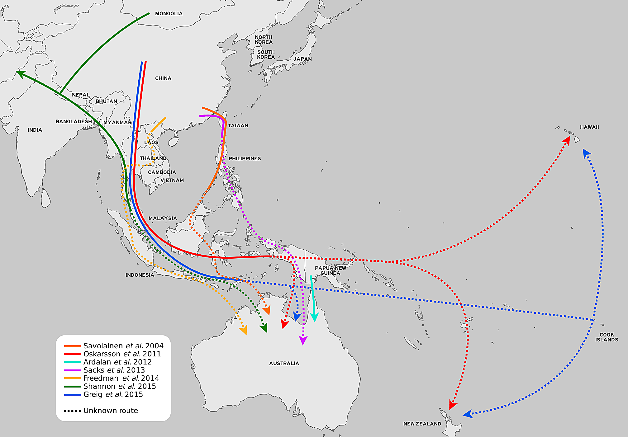 Map depicting possible phylogeographic origins of dingoes, based on recent genetic evidence. Per Fillios, Melanie A.; Taçon, Paul S.C. (2016). "Who let the dogs in? A review of the recent genetic evidence for the introduction of the dingo to Australia and implications for the movement of people". Journal of Archaeological Science: Reports. 7: 782–792.